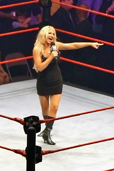 Jillian Hall singing a Kylie Minogue song prior to the Hacksaw Jim Duggan vs Santino Marella match. Taken during the WWE Raw - Survivor Series Tour, at Rod Laver Arena, Melbourne Park, Melbourne, Australia. Jillian Hall did not wrestle on the night.